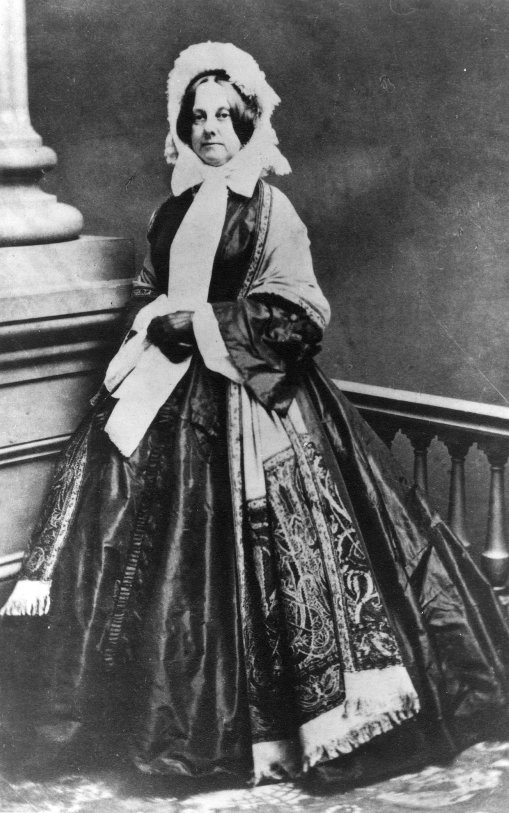 Abigail Fillmore.